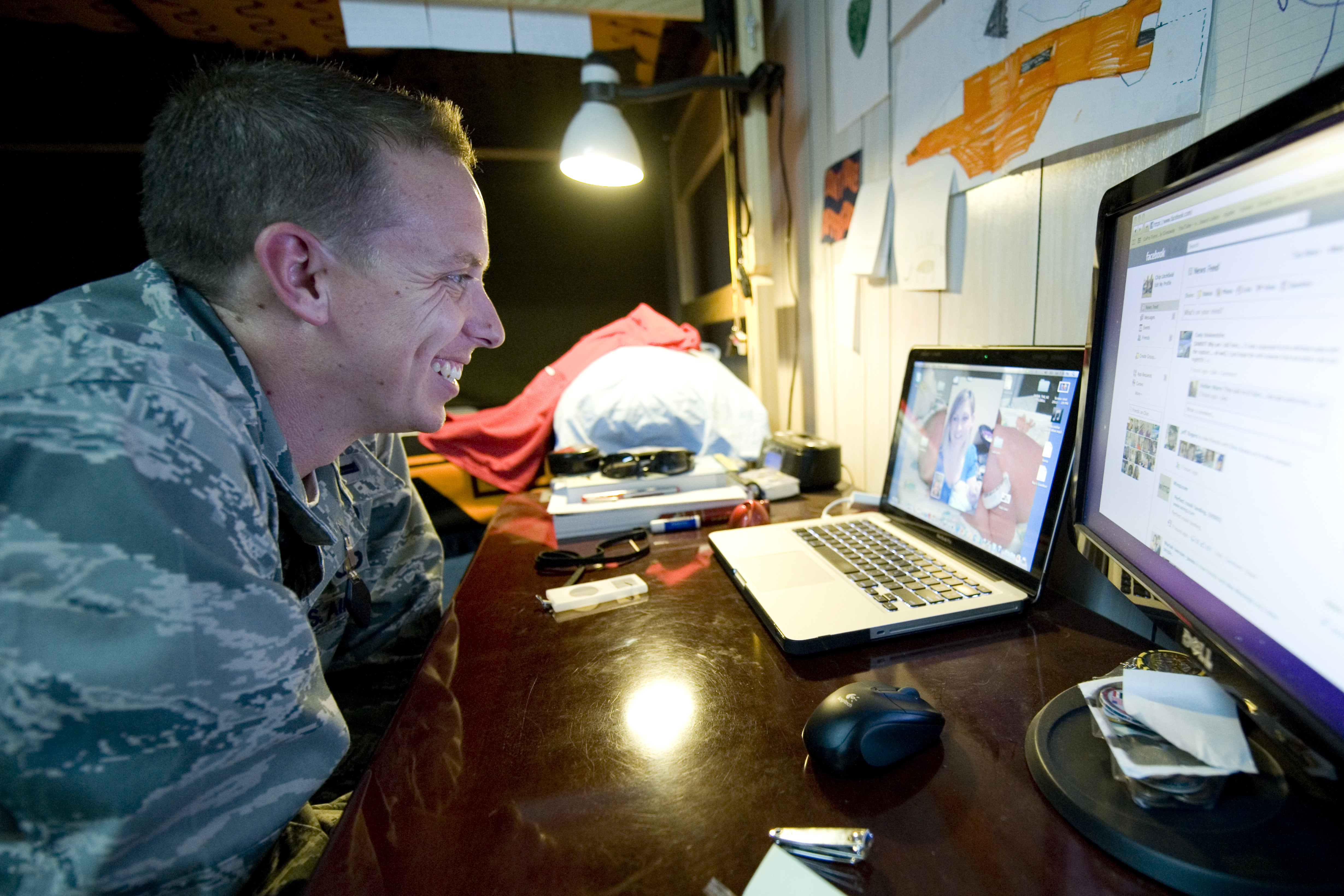 First Lt. Arthur Litchfield, Iraq Training and Advisory Mission-Air officer in charge of the foreign excess personal property program, speaks to his wife Desiree as she holds the newest addition to their family, Cohen James Litchfield, May 21. Lieutenant Litchfield was able to watch the whole birth via Facetime, a video chat program, from his deployment in Baghdad. Lieutenant Litchfield is deployed from Hill Air Force Base, Utah, and is a native of Mountain Home, Idaho. His wife, Desiree, is a native of Enid, Okla.